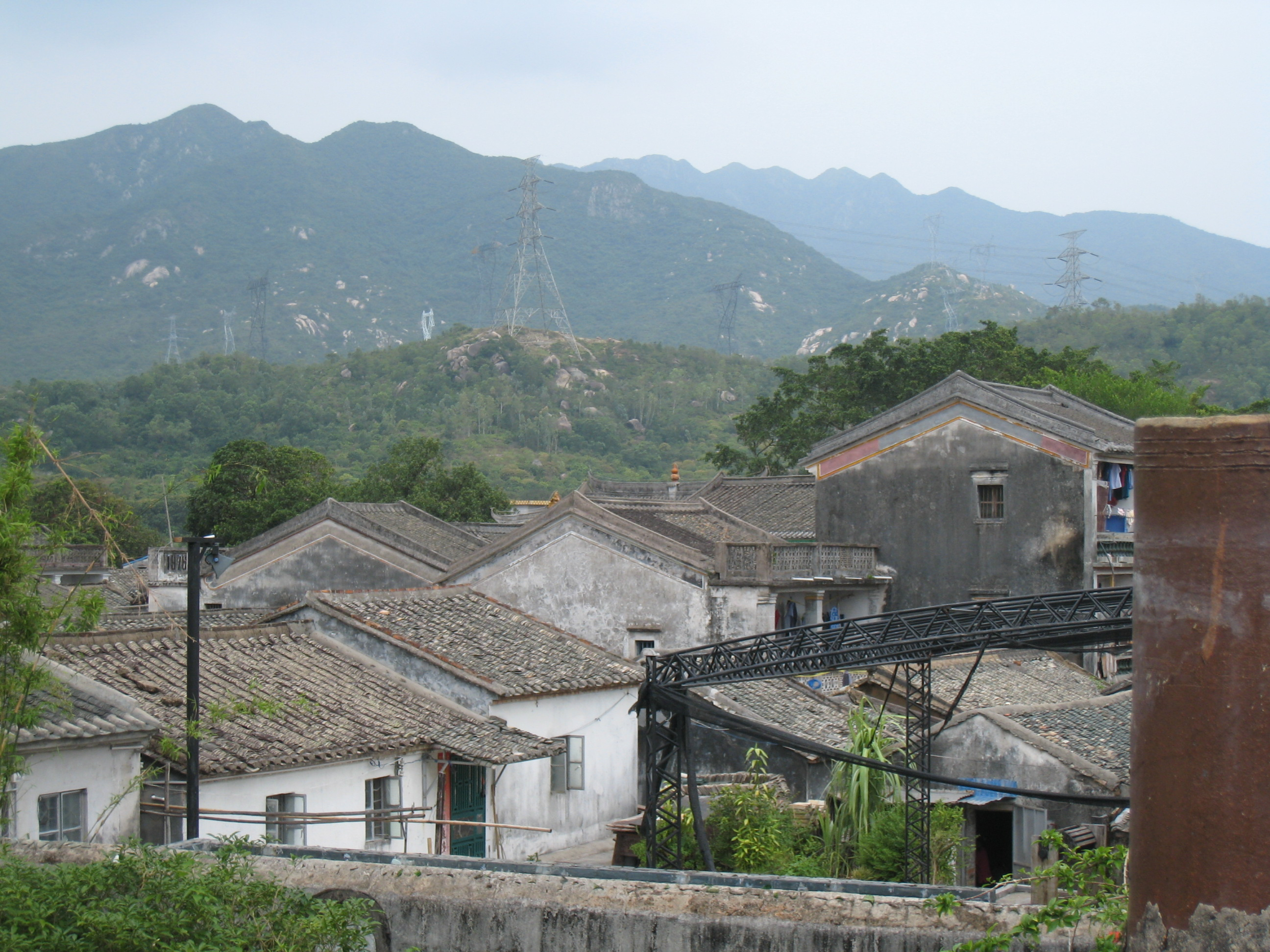 a view over the village Dapengcheng from out a house in Dapengcheng.